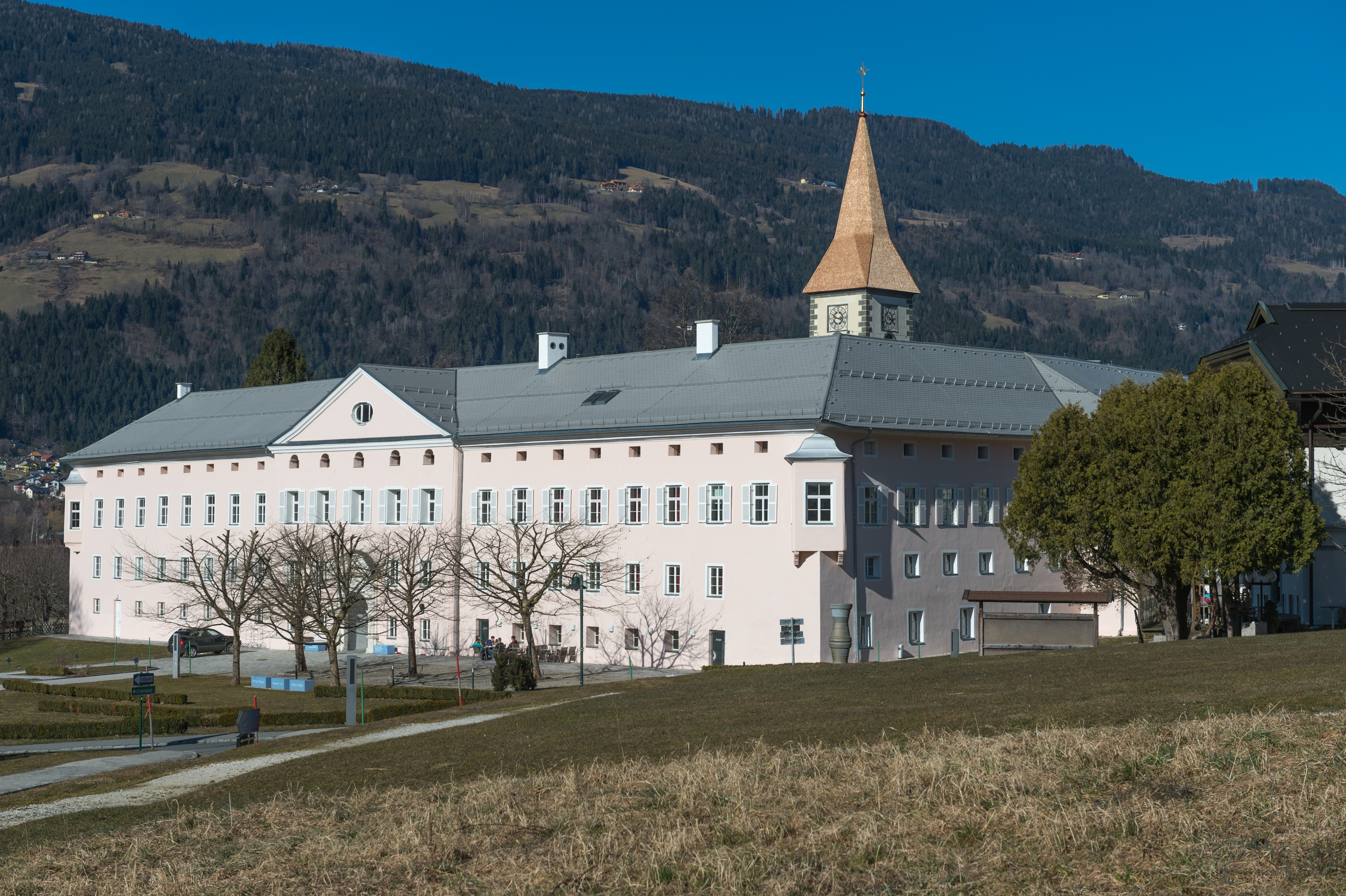 Monastery Ossiach with the exteriour middle avant-corps at the west wing, Ossiach #1, municipality Ossiach, district Feldkirchen, Carinthia, Austria, EU